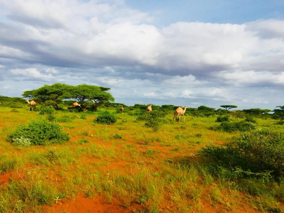 Camels in the ourskirts of Guriceel